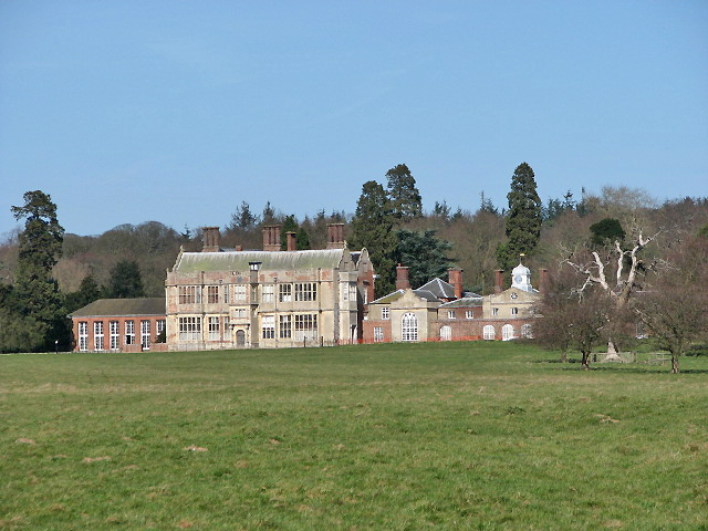 View towards Felbrigg Hall